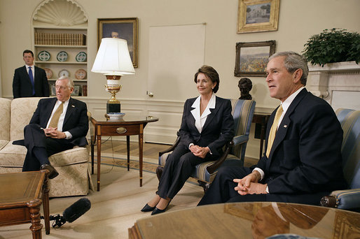 President George W. Bush meets with Congresswoman Nancy Pelosi (D-Calif.) and Congressman Steny Hoyer (D-Md.) in the Oval Office Thursday, Nov. 9, 2006. "First, I want to congratulate Congresswoman Pelosi for becoming the Speaker of the House, and the first woman Speaker of the House. This is historic for our country,” President Bush said. He also stated, "This is the beginning of a series of meetings we'll have over the next couple of years, all aimed at solving problems and leading the country."